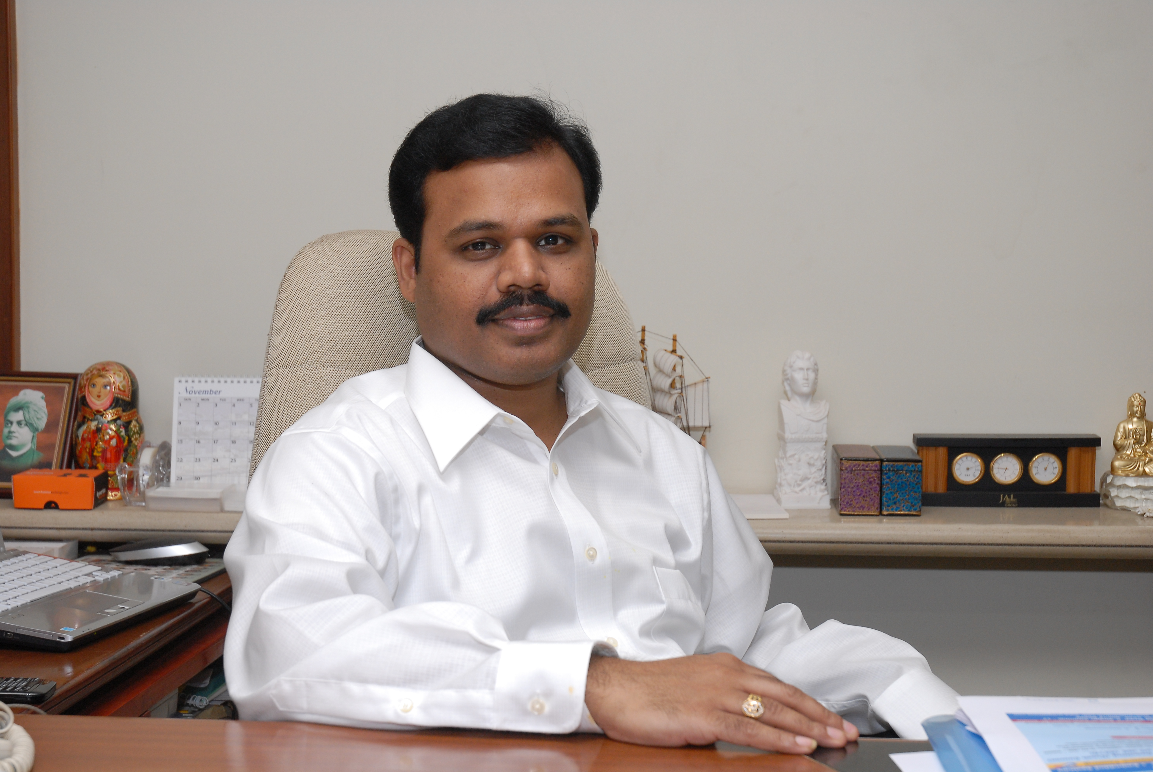 Dr. P.Sathyanarayanan is the President of SRM University, a leading world-class University aimed at providing students with a unique educational learning experience.